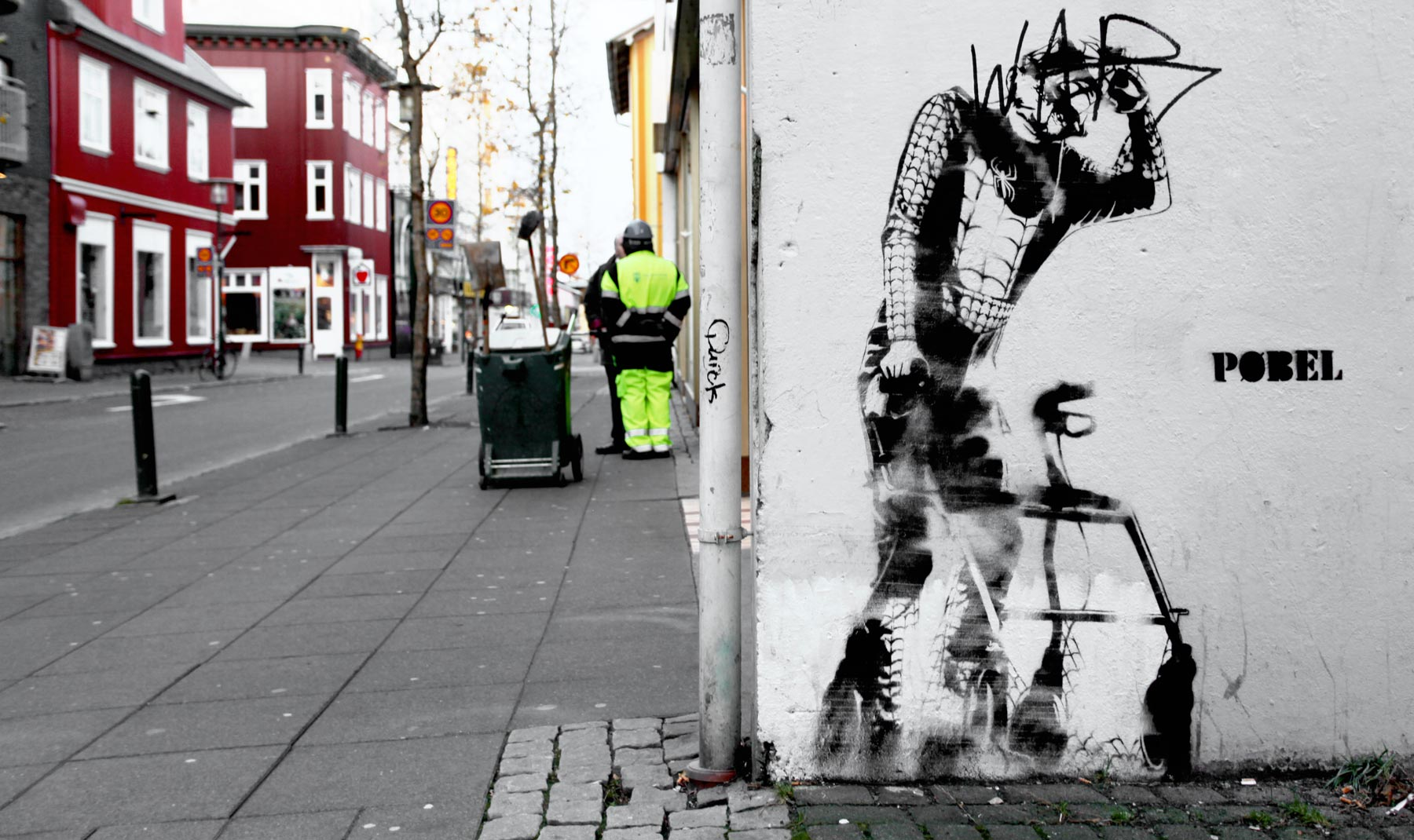 Spiderman in old age, Reykjavik, 2010